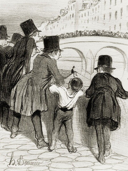 Parisian crowd of onlookers (badauds) watching over events on the river